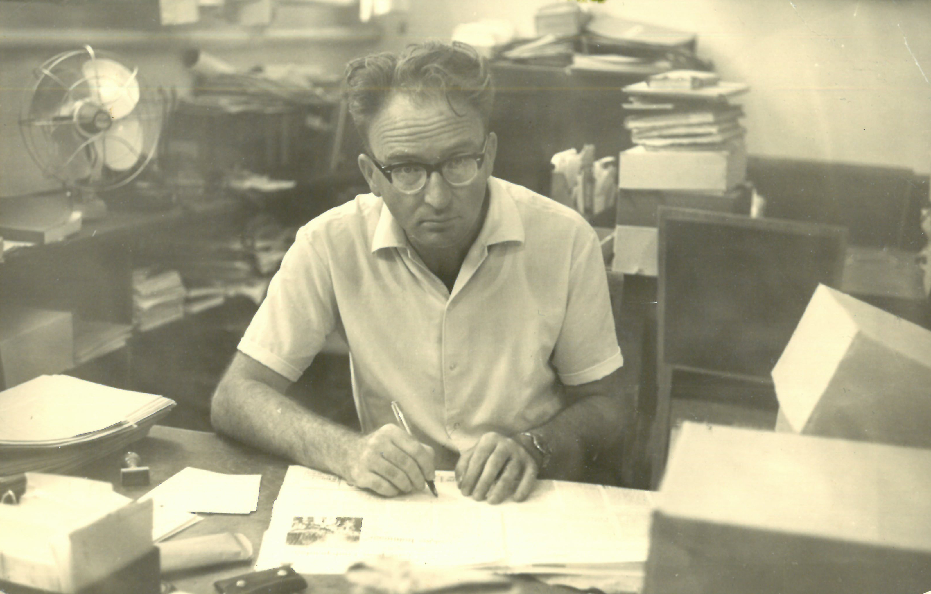 Israeli translator Emanuel Beeri at his study